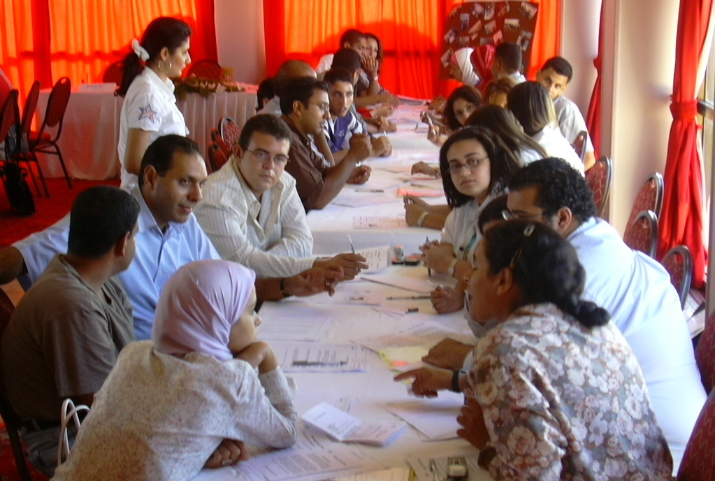 Egyptian youth at a modern workshop.